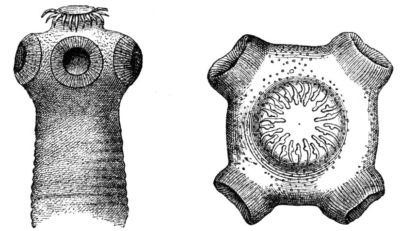 Scolex of the pork tapeworms (Taenia solium). Left – side view (×30), right – view from above (×55). Original size of the picture: 2.8 x 1.6 in² (7.0 x 4.0 cm²).